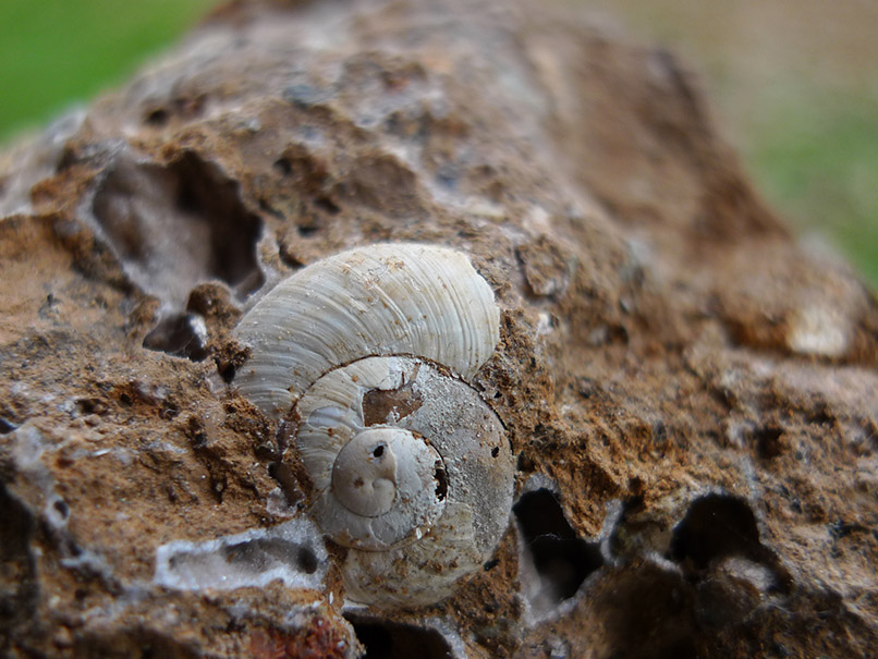 Pleistocene fossil of Tacheocampylaea cf. raspailii, an endemic land snail from Corsica (France)